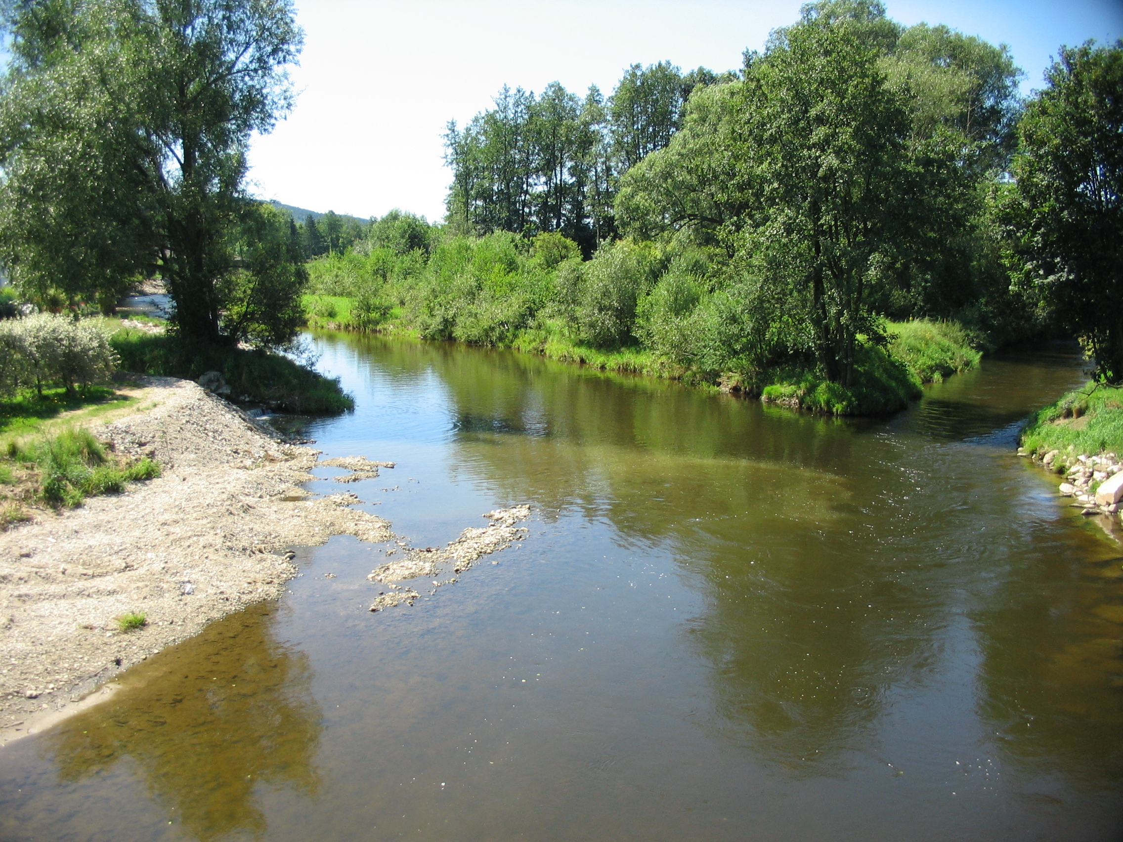 Confluence of the river Volyňka (left) and Smiradický potok in Mutěnice, near Strakonice, Czech Republic